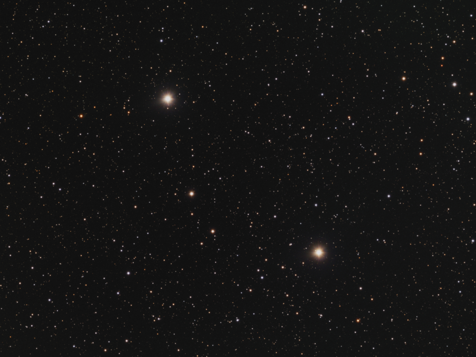 Upsilon Cassiopeiae in optical light